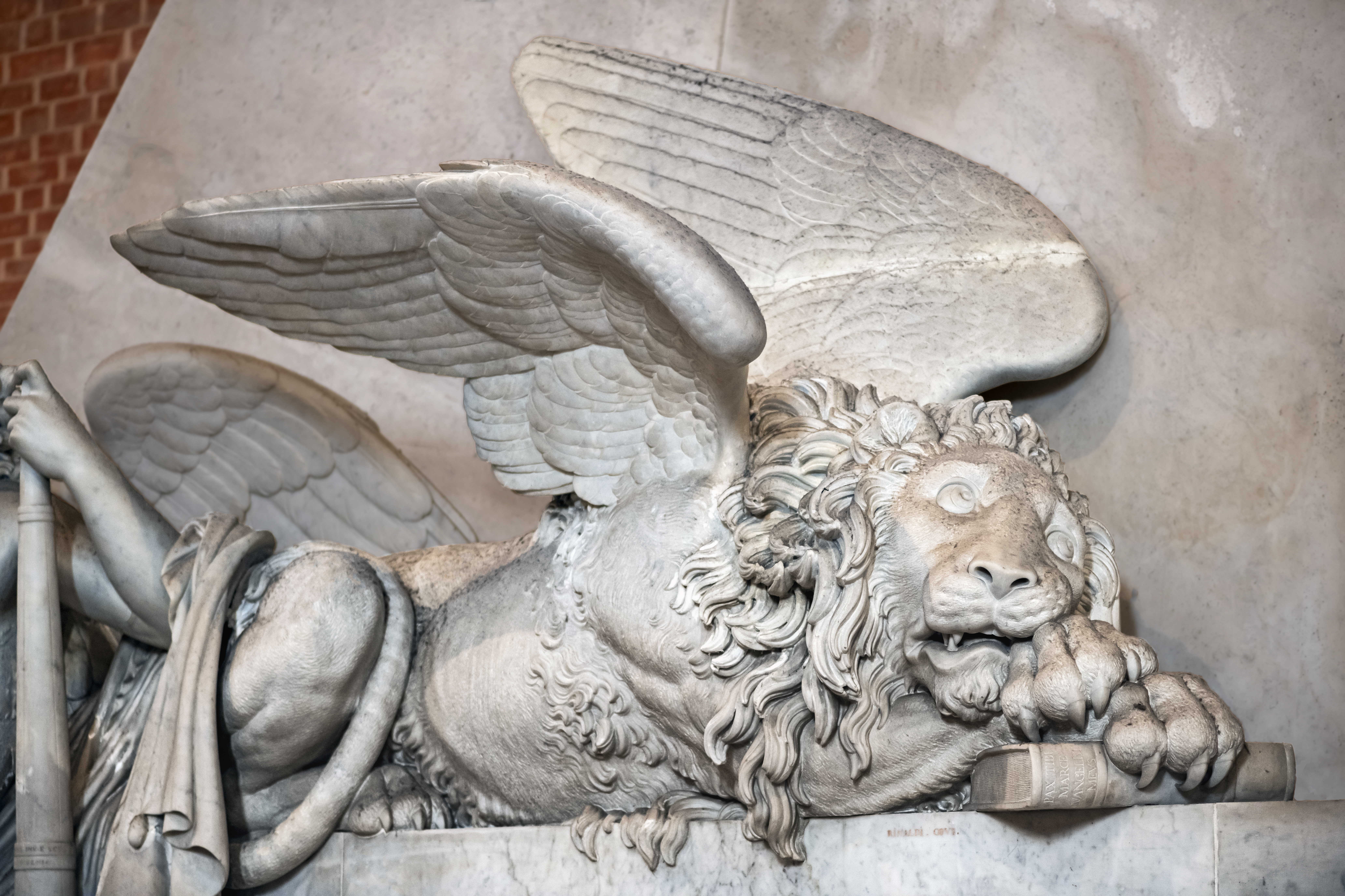 The Basilica di Santa Maria Gloriosa dei Frari, monument to Canova. In 1794 Antonio Canova designed and built a model for the tomb of Titian, but there were many difficulties in raising the necessary funds for the construction, so that in 1822, the year of Canova's death, it was still in draft form. Canova was buried in Possagno, his native country, the Academy of Fine Arts of Venice decided to build a monument to preserve the porphyry urn containing the heart of the artist; the work was undertaken by six of his students and completed in 1827. The Lion of Venice in a sad pose - Rinaldo Rinaldi - 1827.